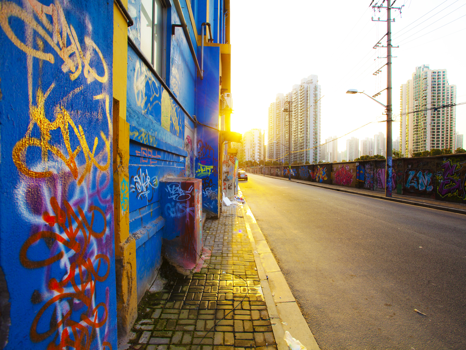 Graffiti in M50 Creative Park